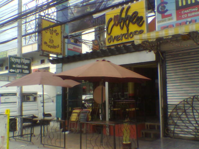 Front of coffee shop taken by mobile phone.